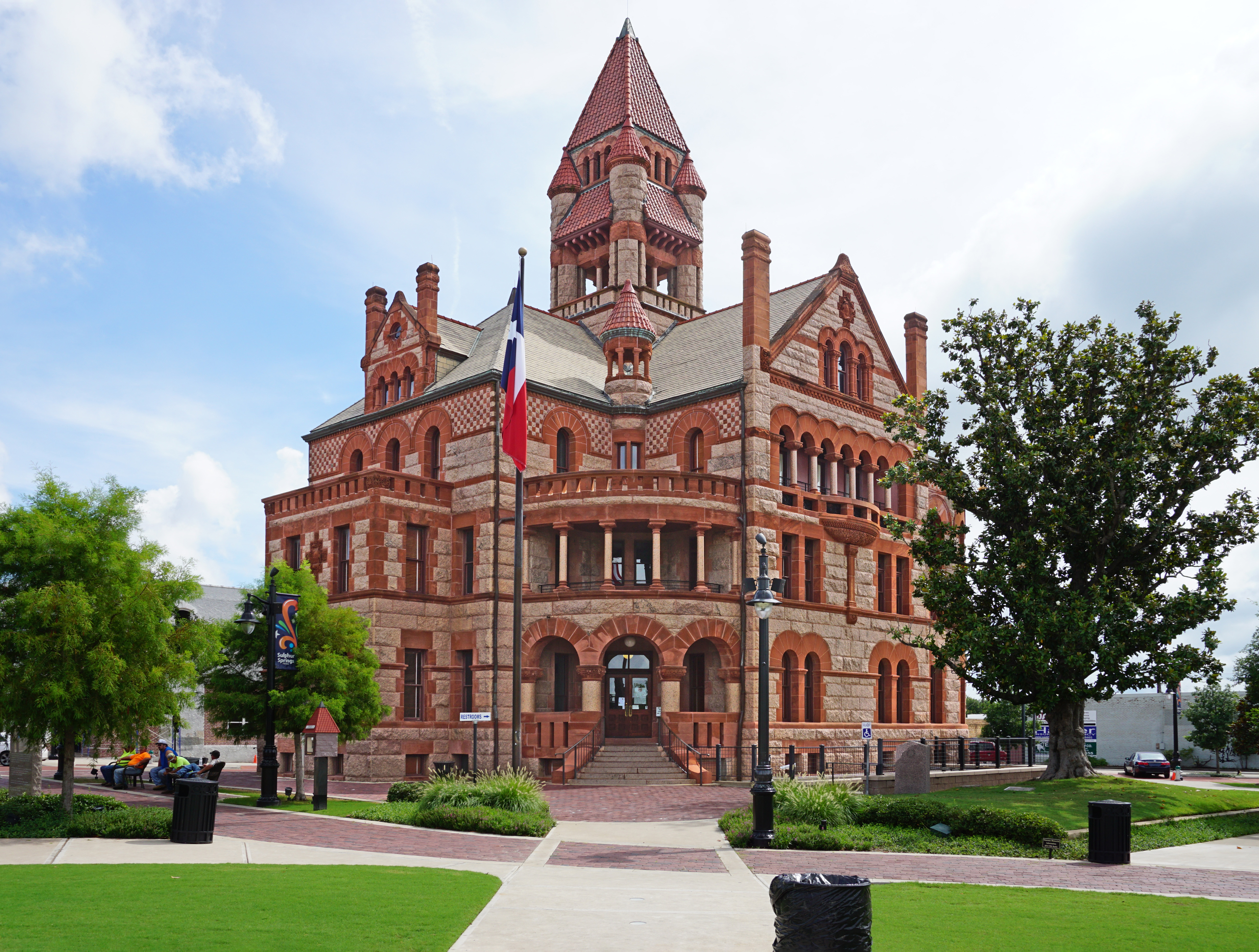 The Hopkins County Courthouse on Courthouse Square in Sulphur Springs, Texas (United States).